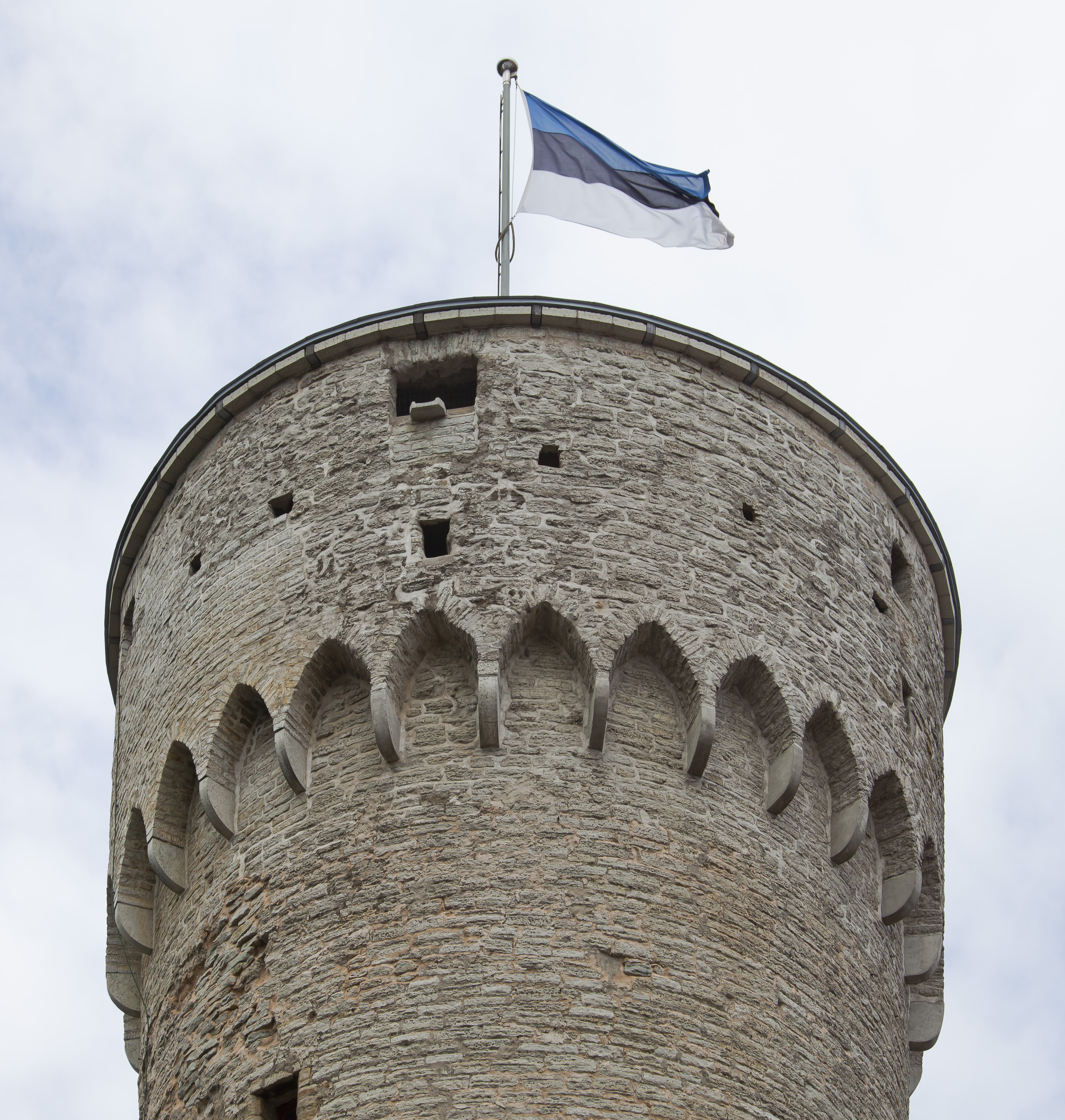 Pikk Hermann, Toompea castle, Tallinn, Estonia